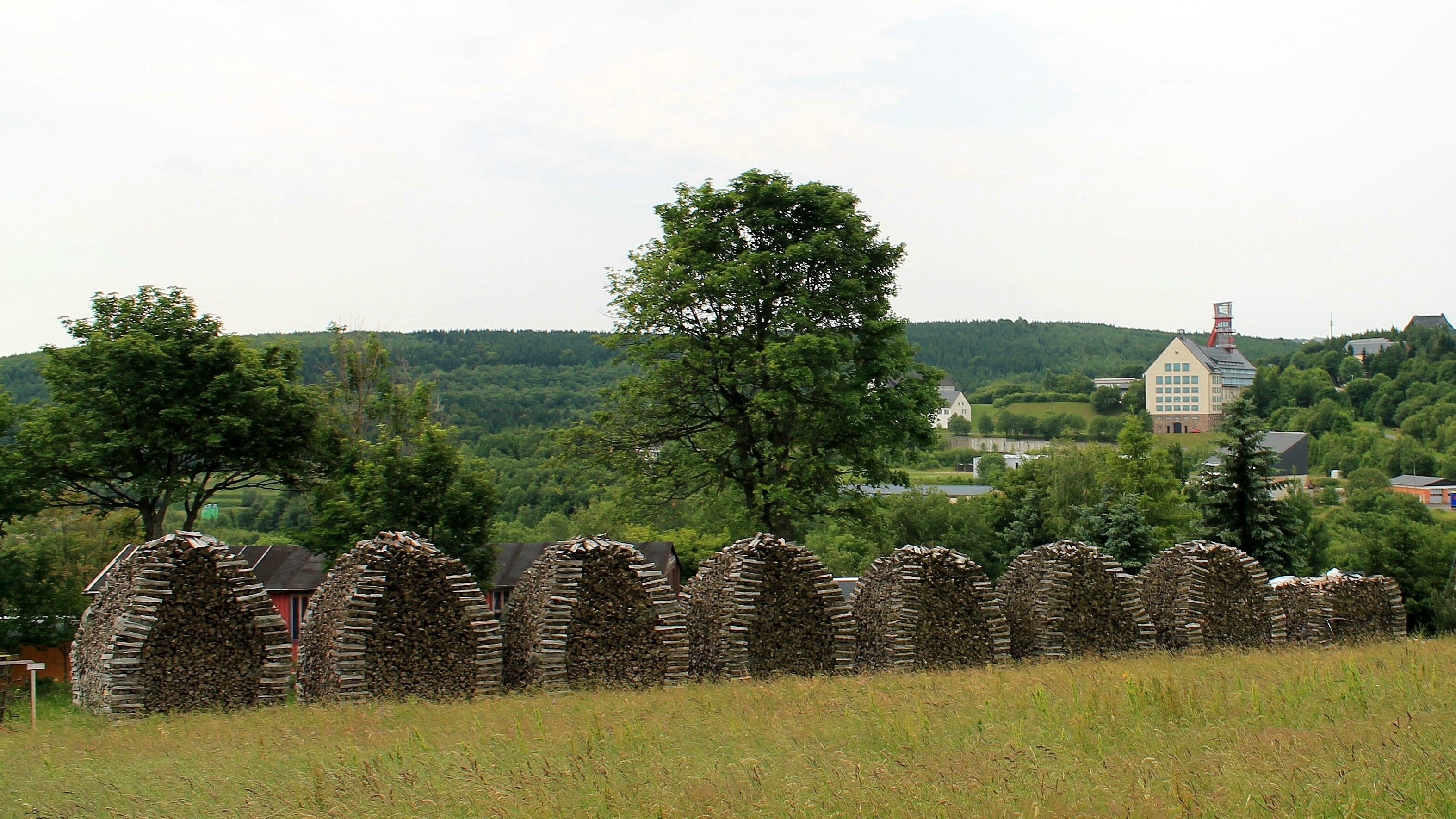 Piles of firewood.